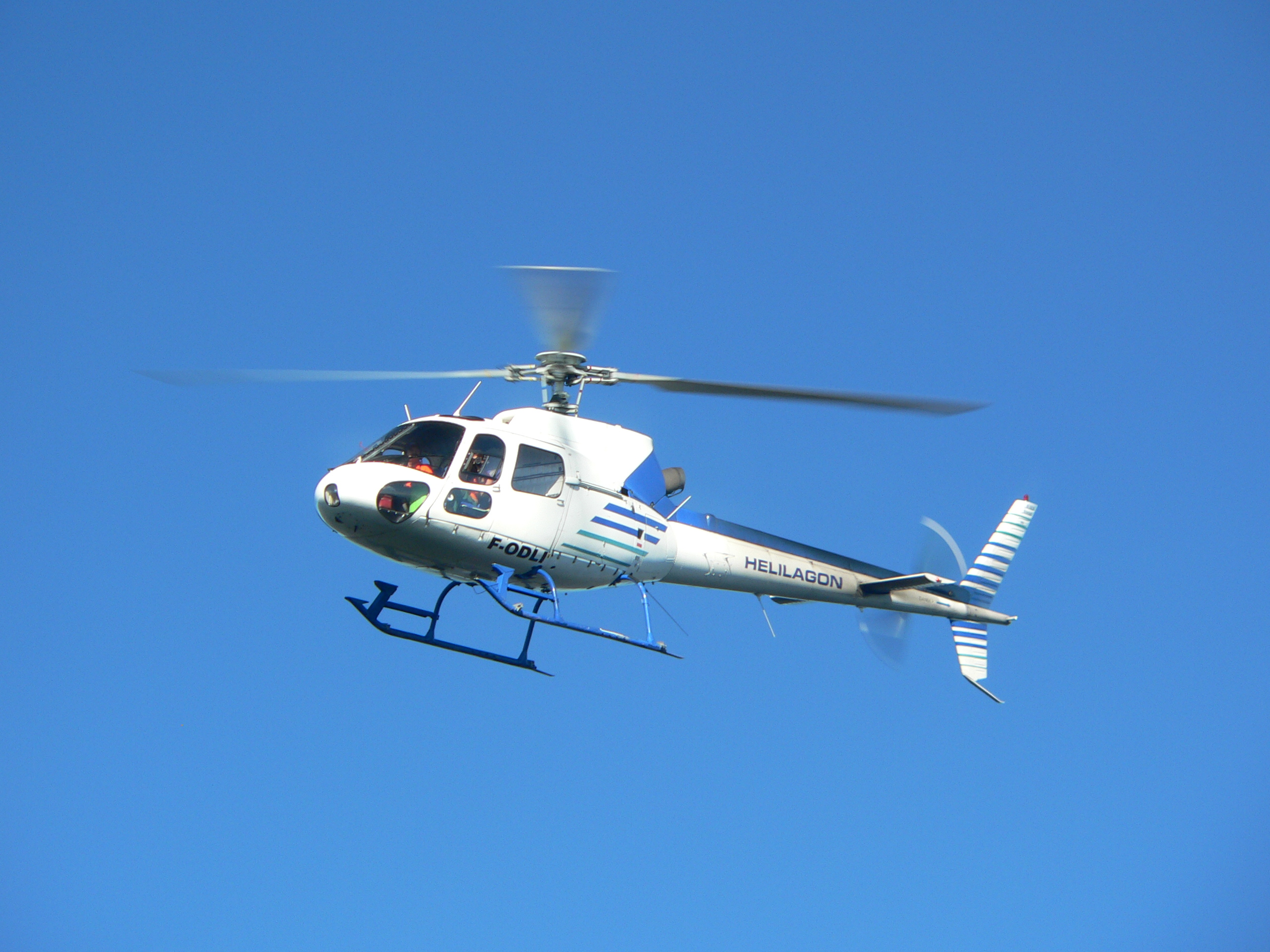 Aérospatiale Écureuil AS 350 B2, F-ODLI, operated by Hélilagon, Réunion Island serial number 2063, max weight 2250 kg, built in 1987 (Information checked on the French aircraft registry)